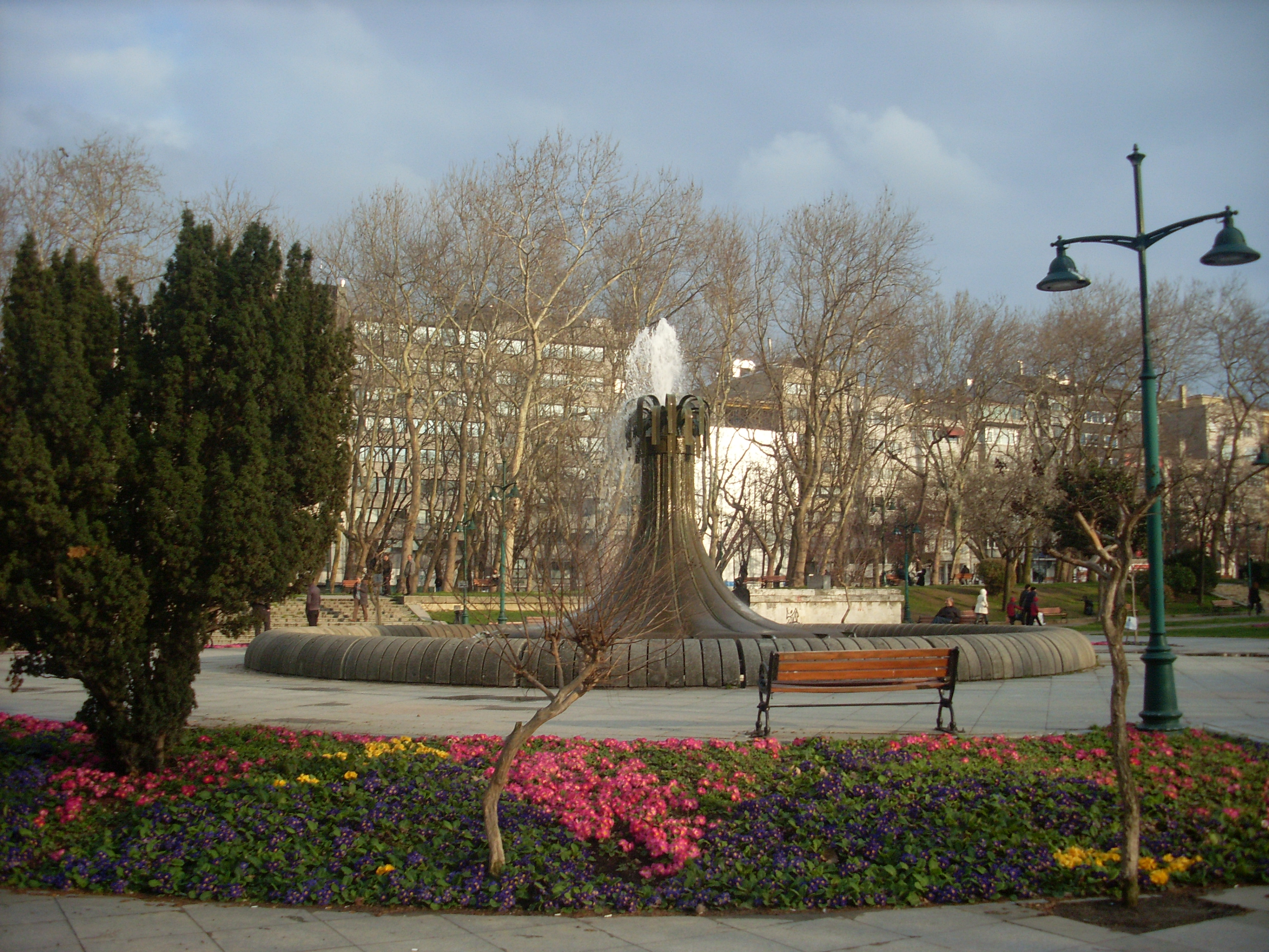 İstanbul - Taksim Gezi Parkı - Mart 2013 - r6